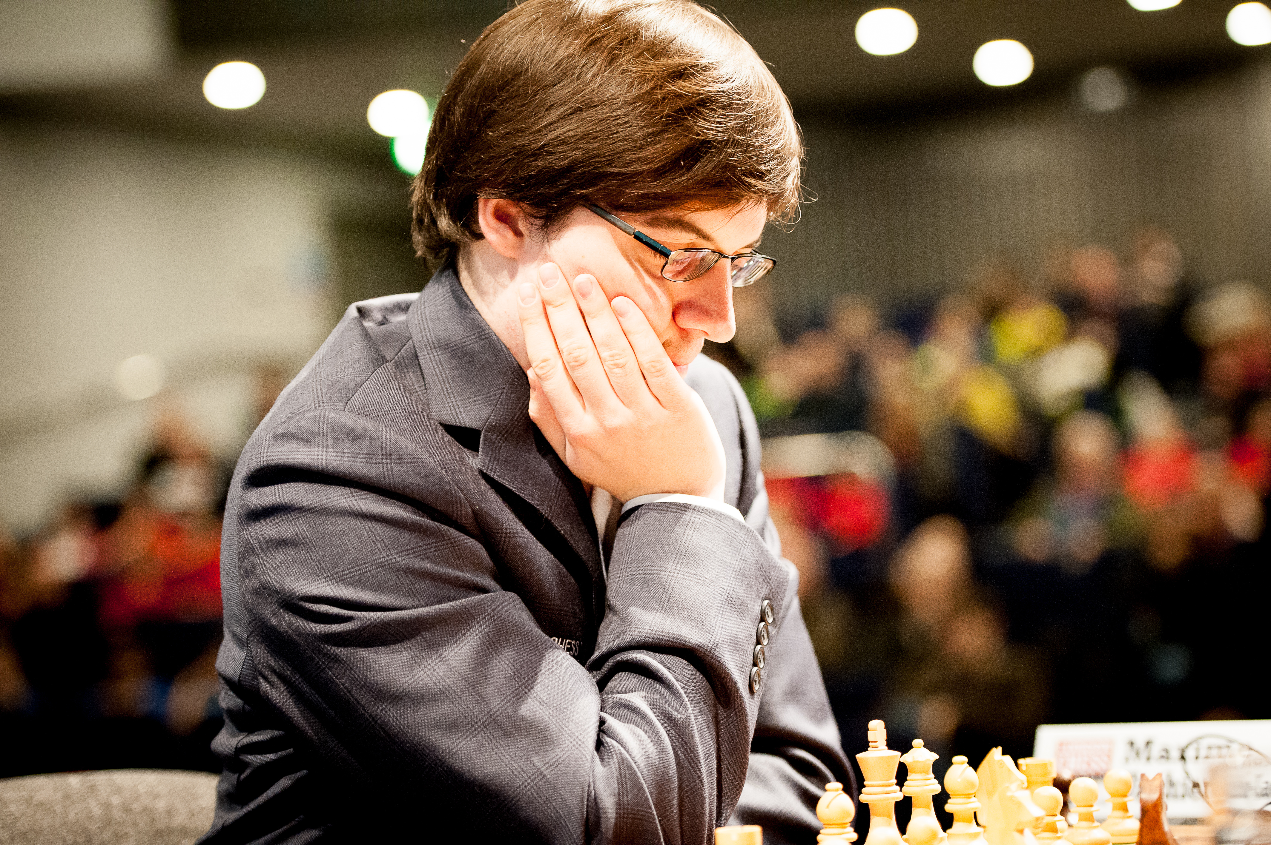 GM Maxime Vachier-Lagrave, World Nr. 4